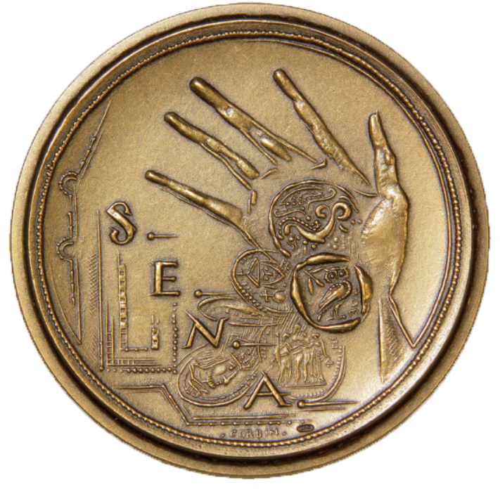 30th anniversary of SÉNA medal (engraved by sculptor Raymond Corbin)